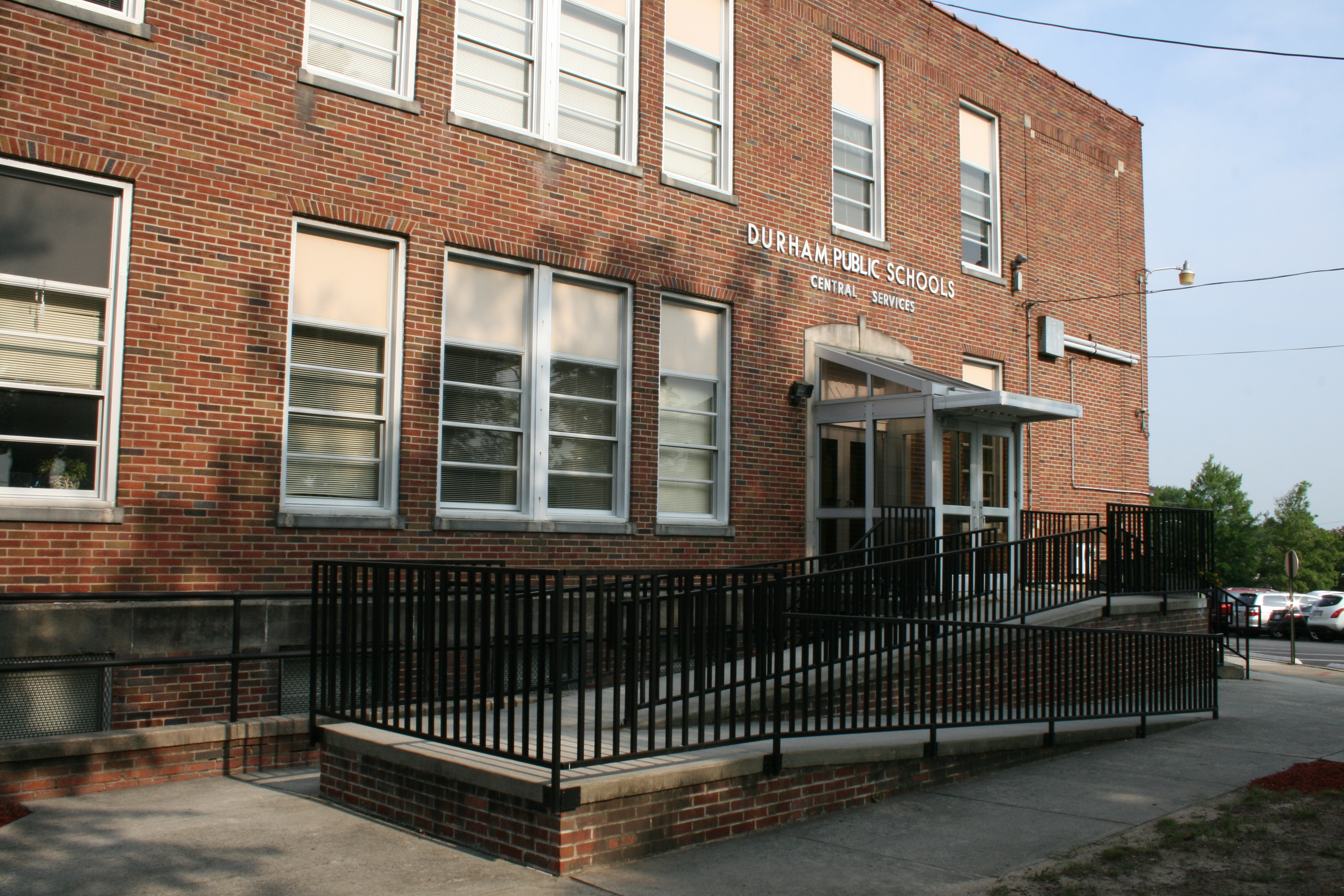 Durham Public Schools Central Services in Durham, North Carolina.